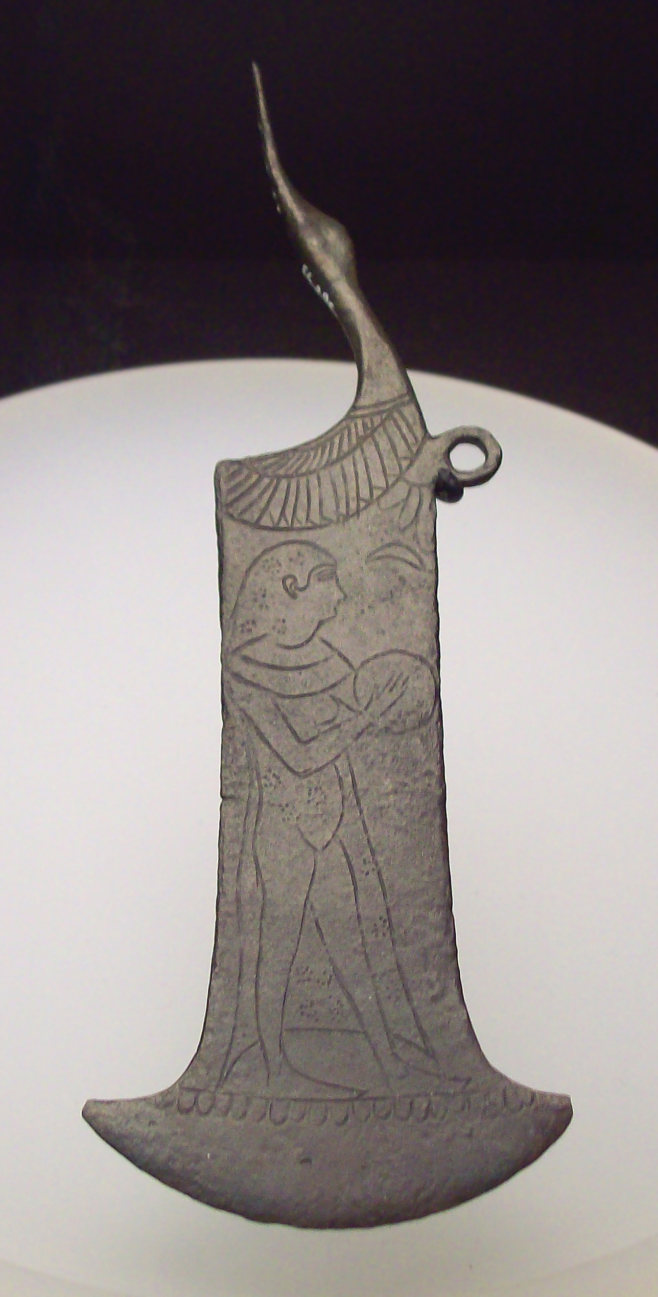 A Punic razor. Surfaces are engraved: a woman playing a tambourine, looking at the right, and wearing a cloak and headgear; below the ring (to hang the piece) it can be seen a half moon; the other side is decorated with a hawk and another figure, that it could be a feline. The opposite extreme of the cutting edge ends in an anatid's head, whose wings are engraved at the beginning of the blade.